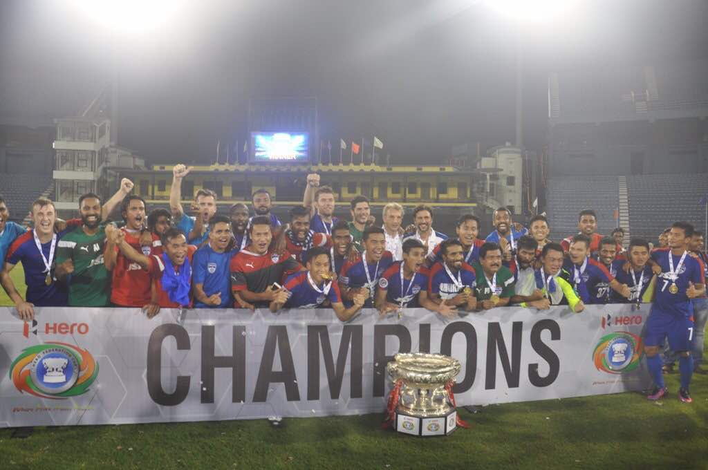 Bengaluru FC crowned 2016–17 Indian Federation Cup champions on 21 May 2017 after winning the final against Mohun Bagan